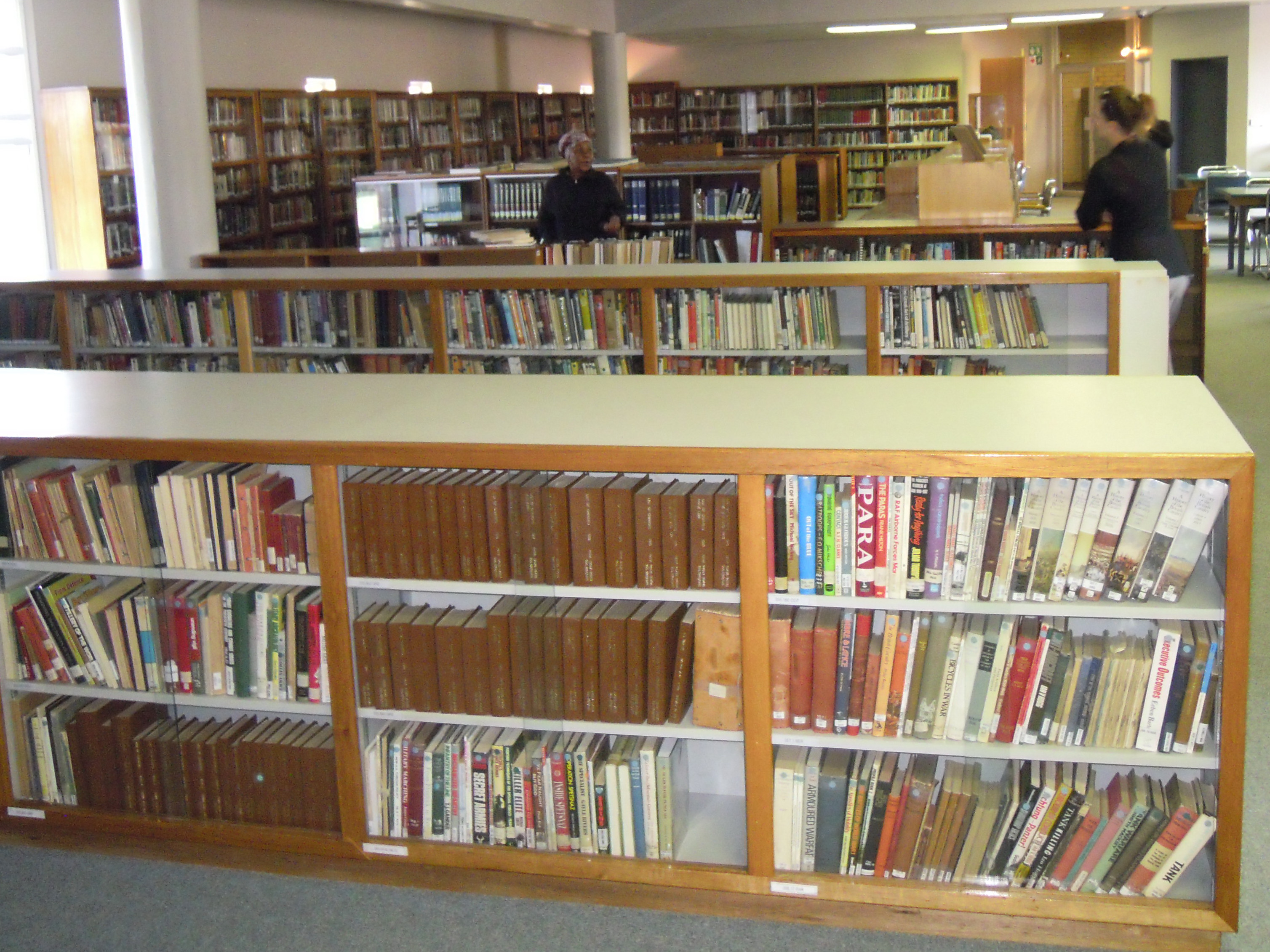 Johannesburg war museum library